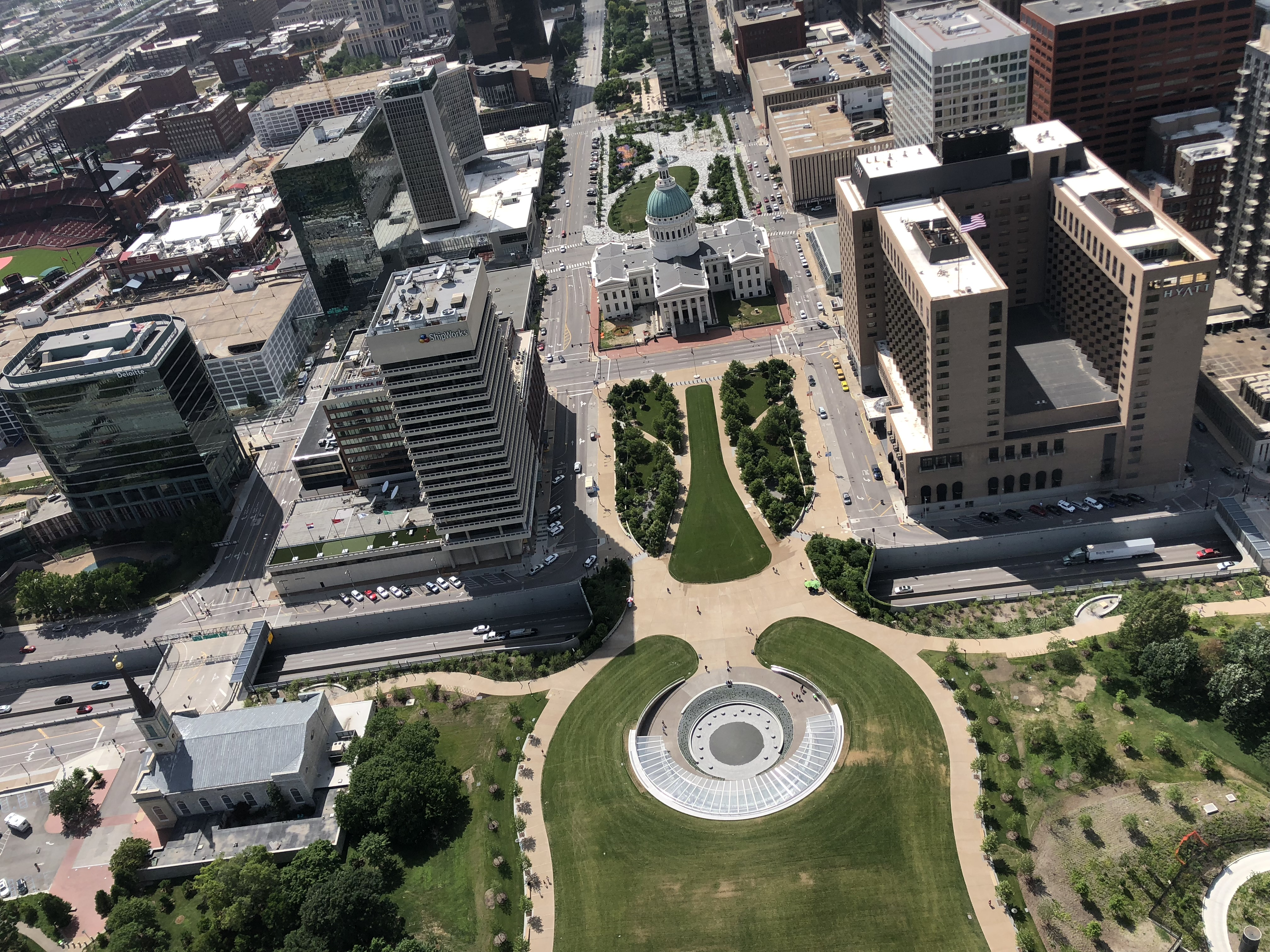 A view of the city of St. Louis from the observation room of the St. Louis Arch. Summer 2018.